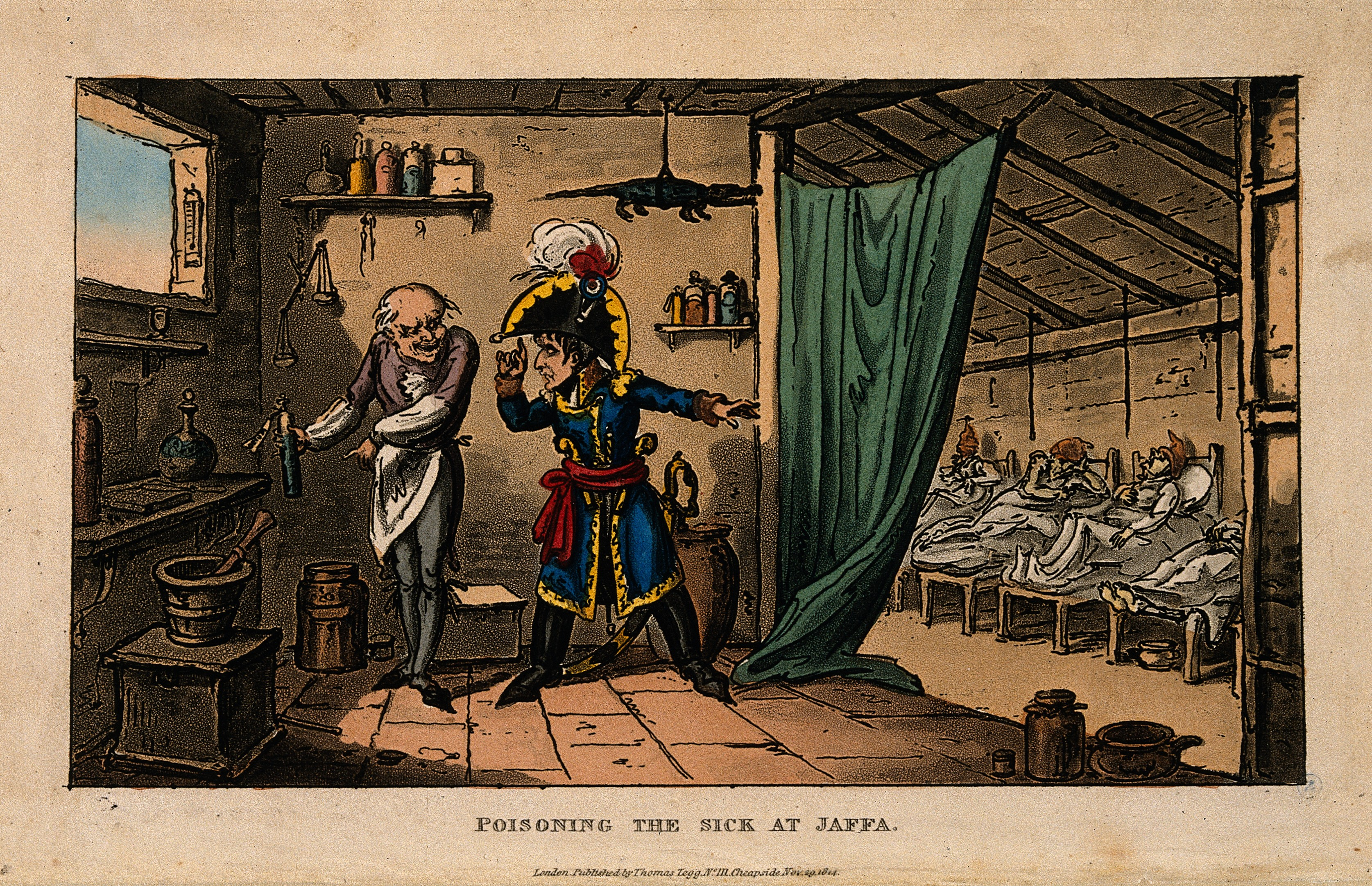 Napoleon Bonaparte instructing the doctor to poison the plague victims at Jaffa in 1799. Coloured aquatint by G. Cruikshank, 1814. Iconographic Collections Keywords: Caricatures; aquatints; israel - history - 18th centur; Military Personnel; Napoléon I; Plague; Poisoning; napoleon i, 1769-1821; SOLDIERS; George Cruikshank